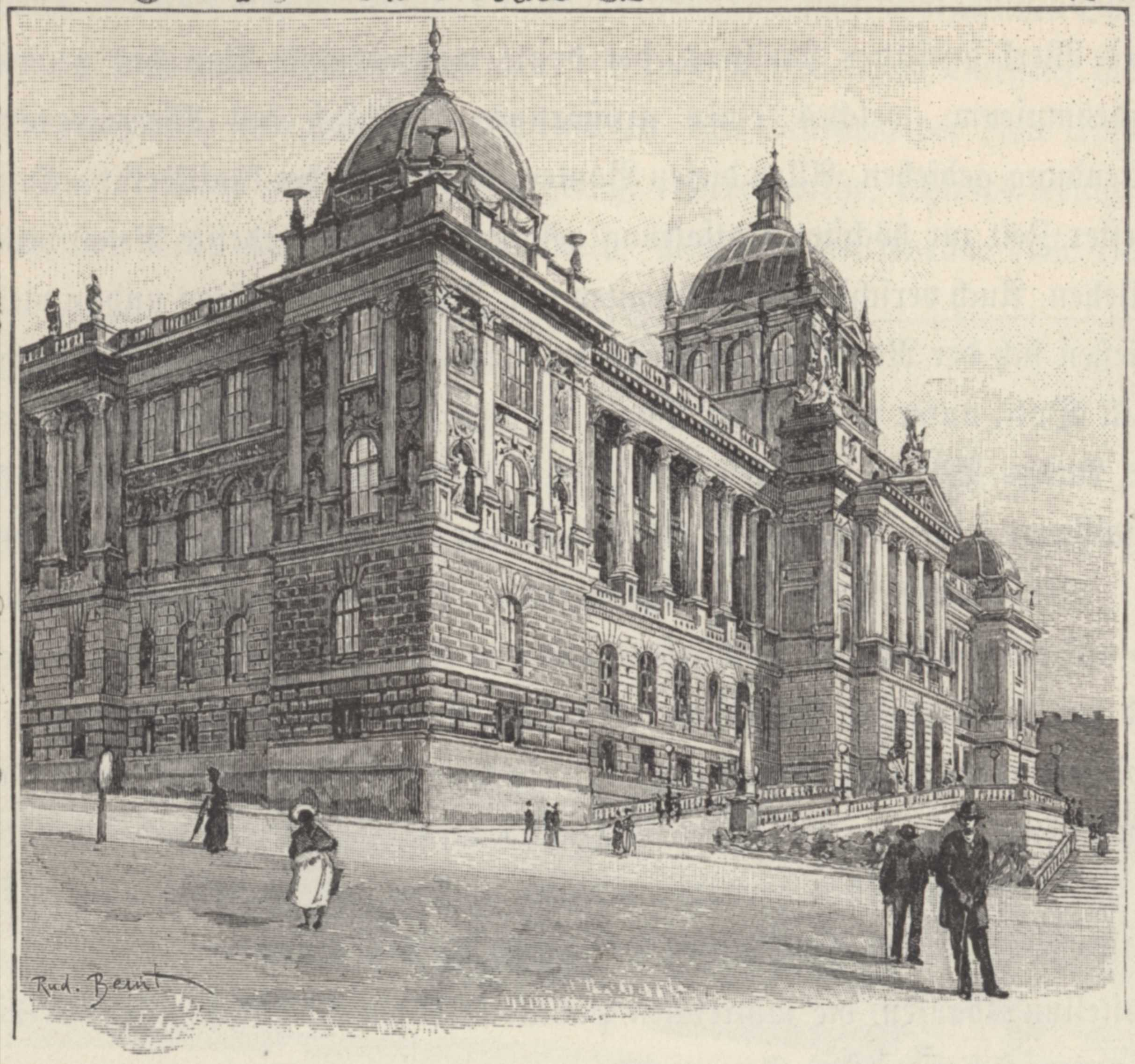 The National Museum of Prague, approx. 1896